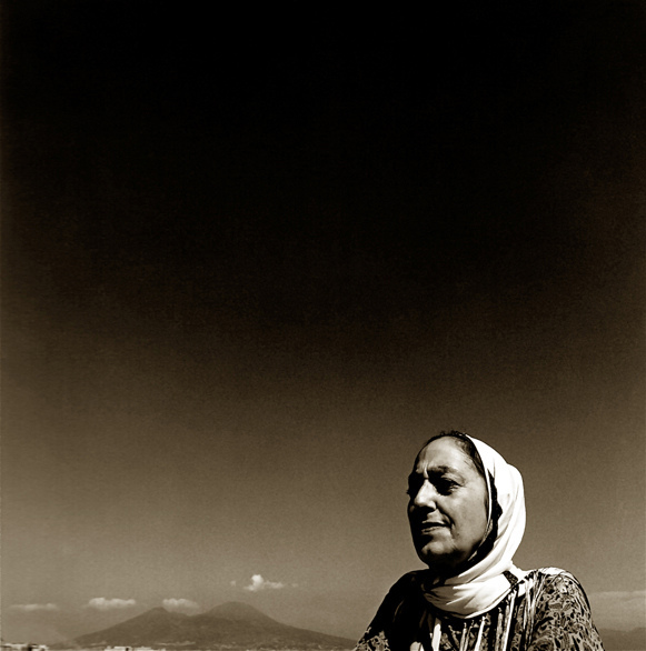 Concetta Barra portrait - Augusto De Luca photo